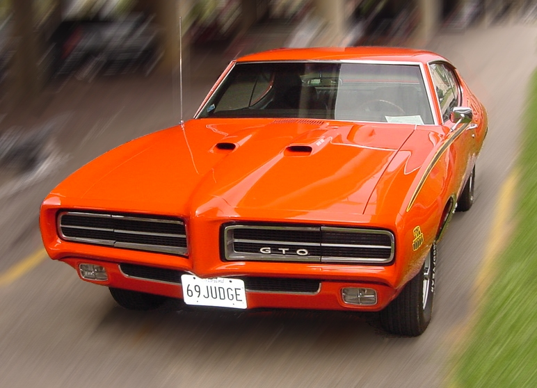 A 1969 GTO Judge with 100% factory correct parts. This car is a good example of a GTO, with no alterations from stock. This Carousel Red (orange) 1969 GTO Judge features blacked-out grilles, Hideaway Headlight doors, a tachometer on the hood, a rear spoiler, Rally 2 wheels, Goodyear white lettered tires, and a Ram Air engine with open hood scoops to feed air into the 4-barrel carburetor.